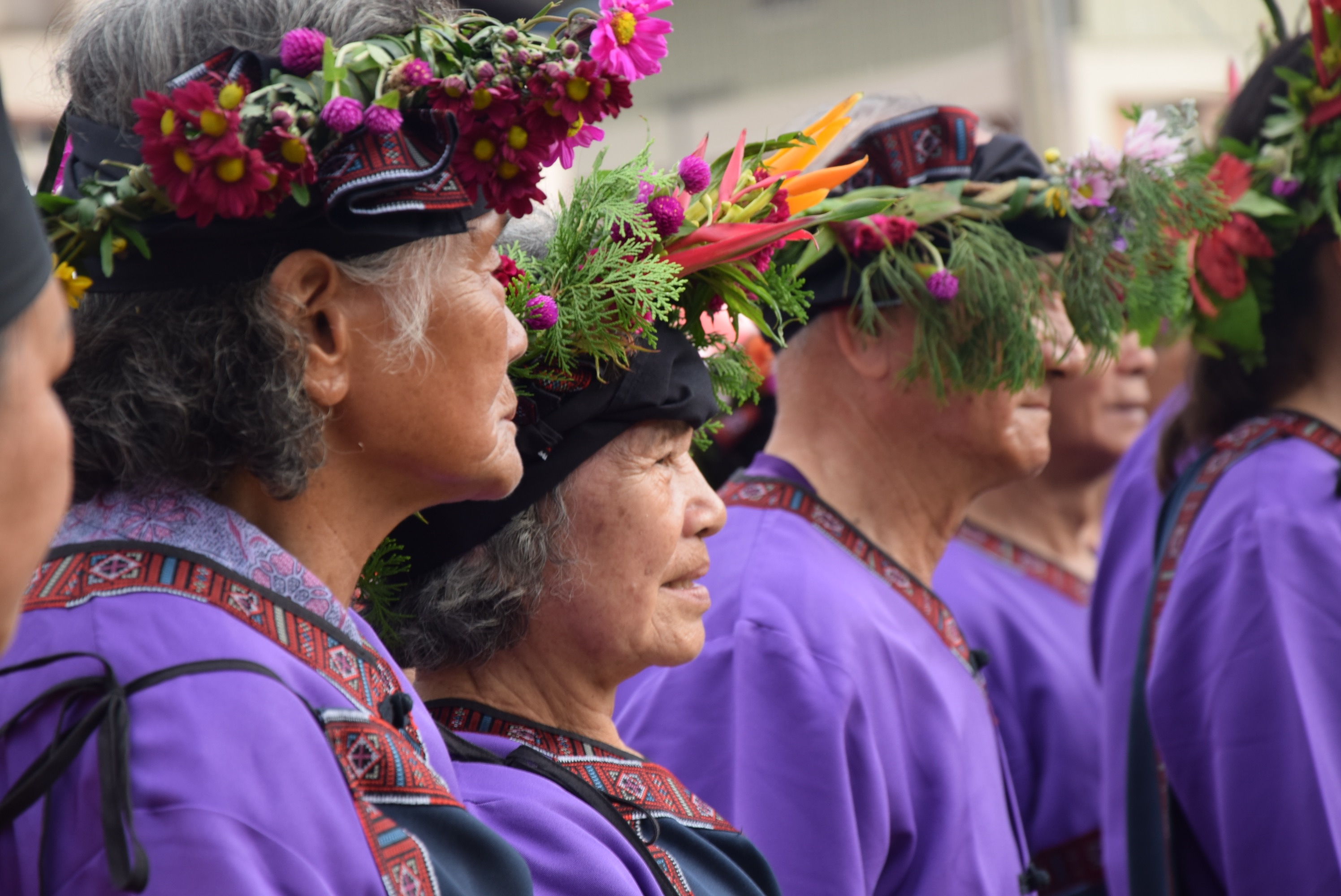 Taivoan people in traditional clothes on the annual Night Ceremony in Xiaolin.